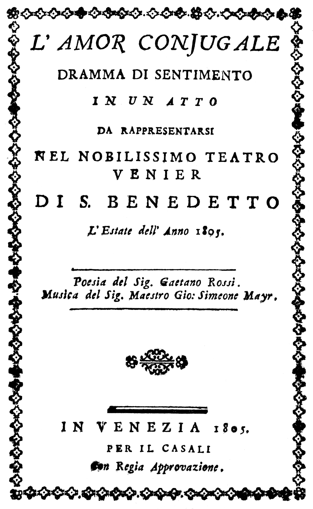 Mayr - L'amor coniugale - title page of the libretto - Venice 1805